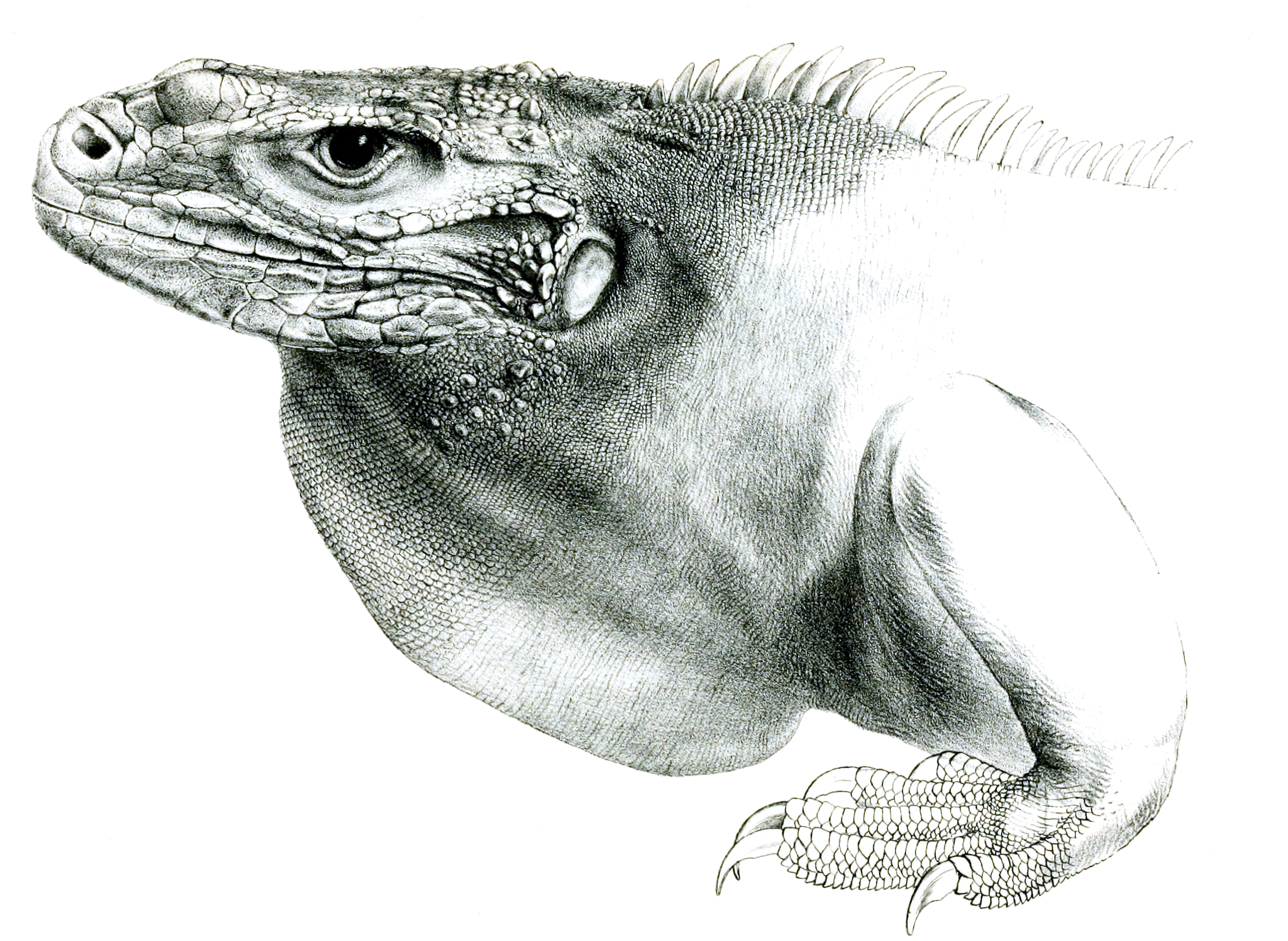 Head of adult Jamaica Iguana from left lateral